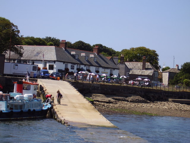 Cremyll - Slipway This was taken from the harbour tour boat.